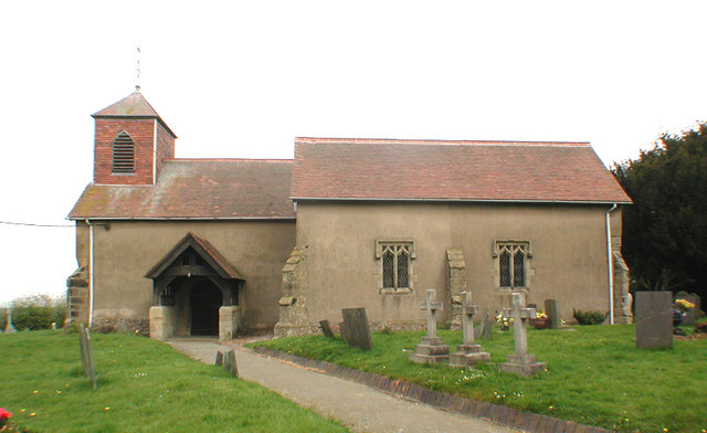 St. James the Greater, Dadlington, Leicester